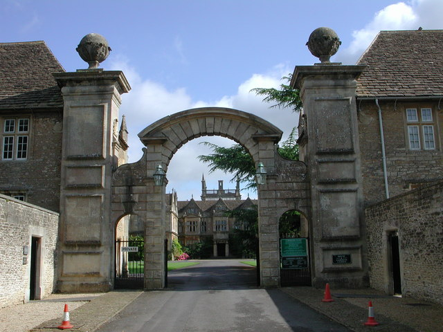 Corsham Court Gate